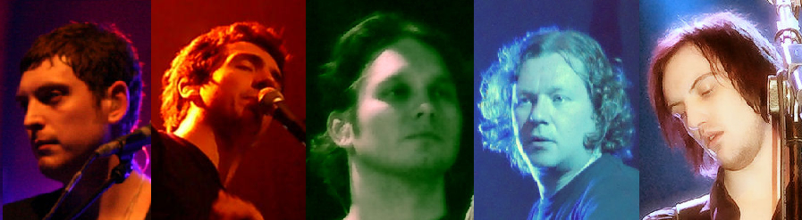 Members of the band Snow Patrol as of 2009; from left to right: Nathan Conolly (Bloomsbury Theatre London, 2008) Gary Lightbody (Copenhagen/Denmark, 2006) Jonny Quinn (Copenhagen/Denmark, 2006) Tom Simpson (Rock City, Nottingham, 2006) Paul Wilson (Copenhagen/Denmark, 2006)